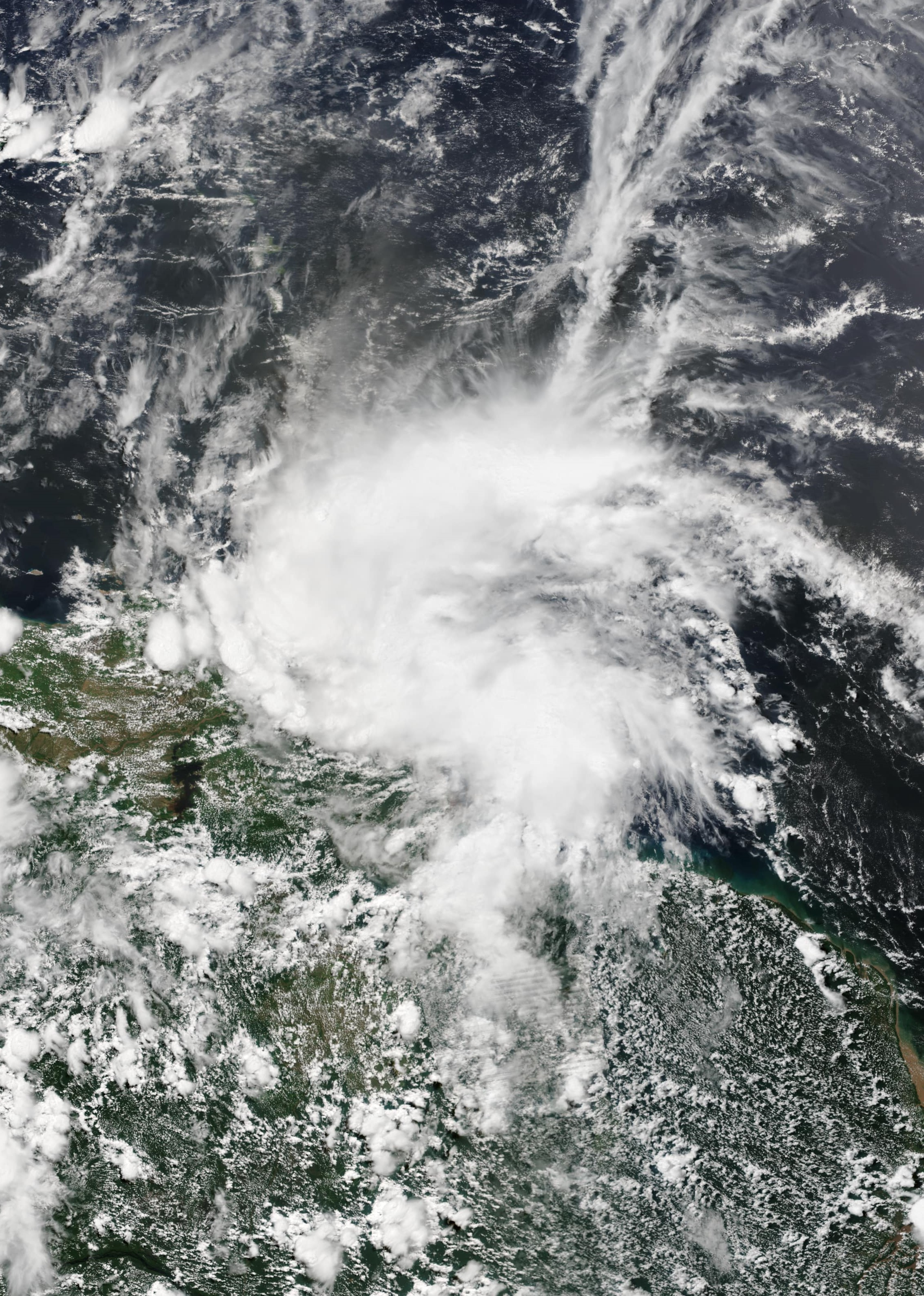 Tropical Storm Bret (02L) off Venezuela on June 19, 2017